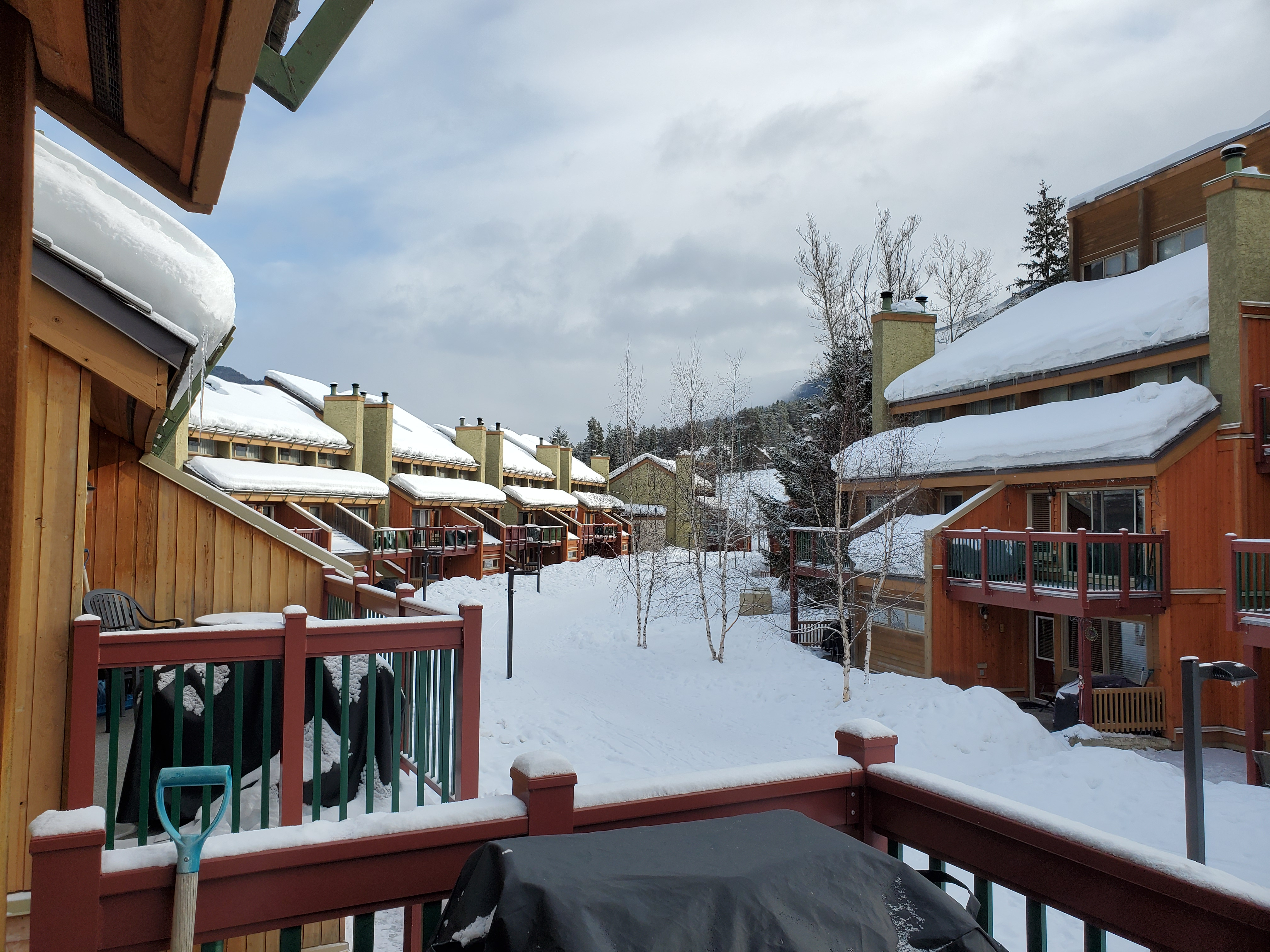 Looking east from the 600 block of Horsethief Lodge